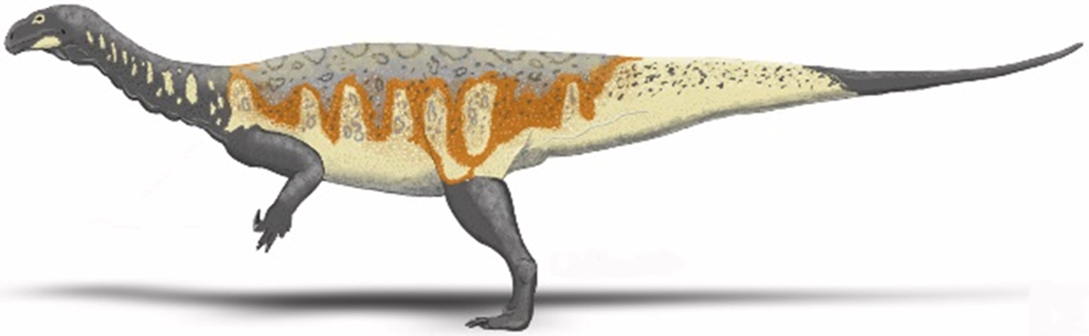 Plateosaurus engelhardti. Reprinted from original, previously-unpublished artwork by Leandra Walters under a CC BY license, with permission from Leandra Walters, original copyright 2015.